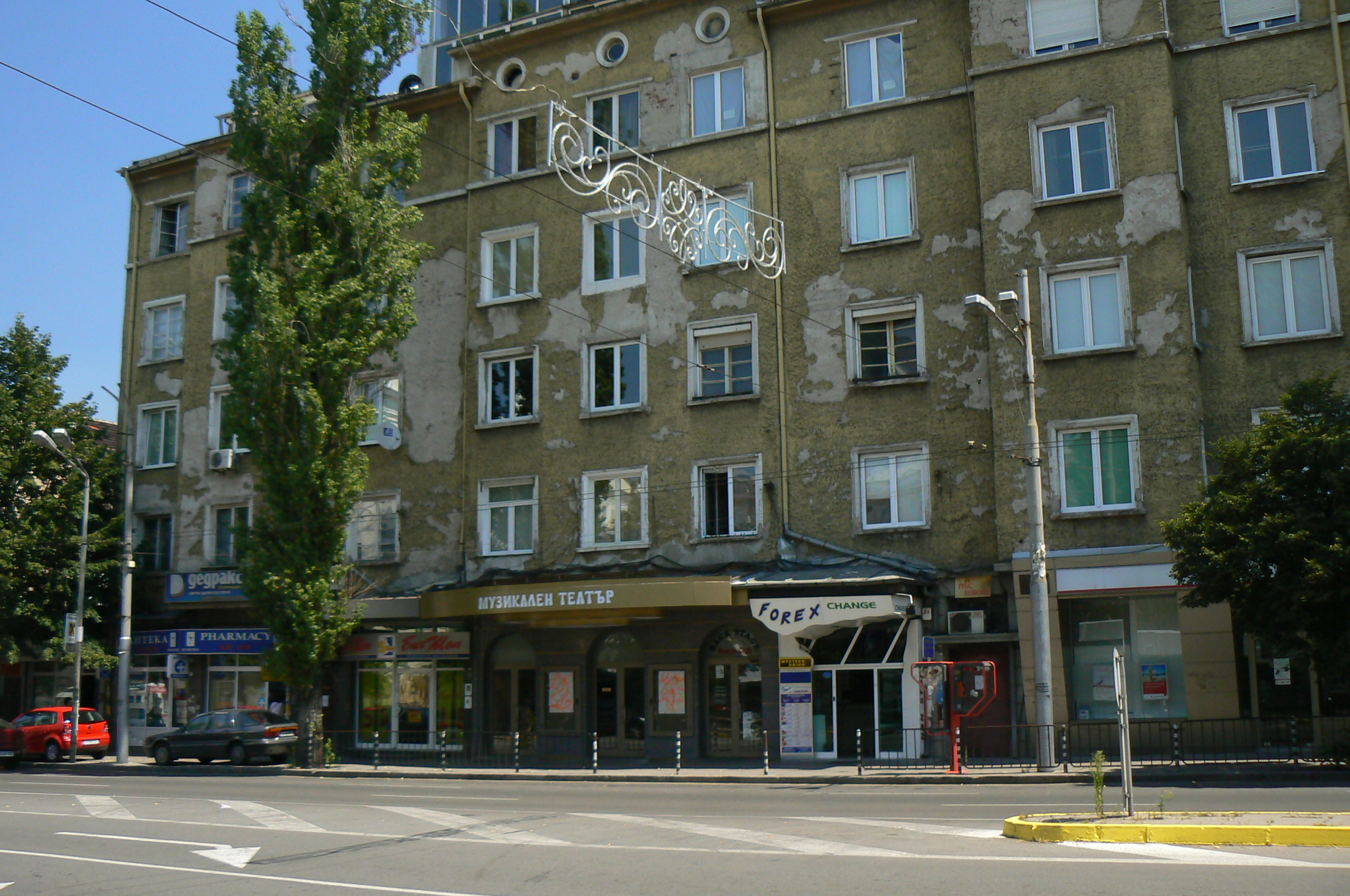 Musical Theatre "Stefan Makedonski", Sofia, Bulgaria